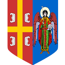 Small coat of arms of the municipality of Aranđelovac